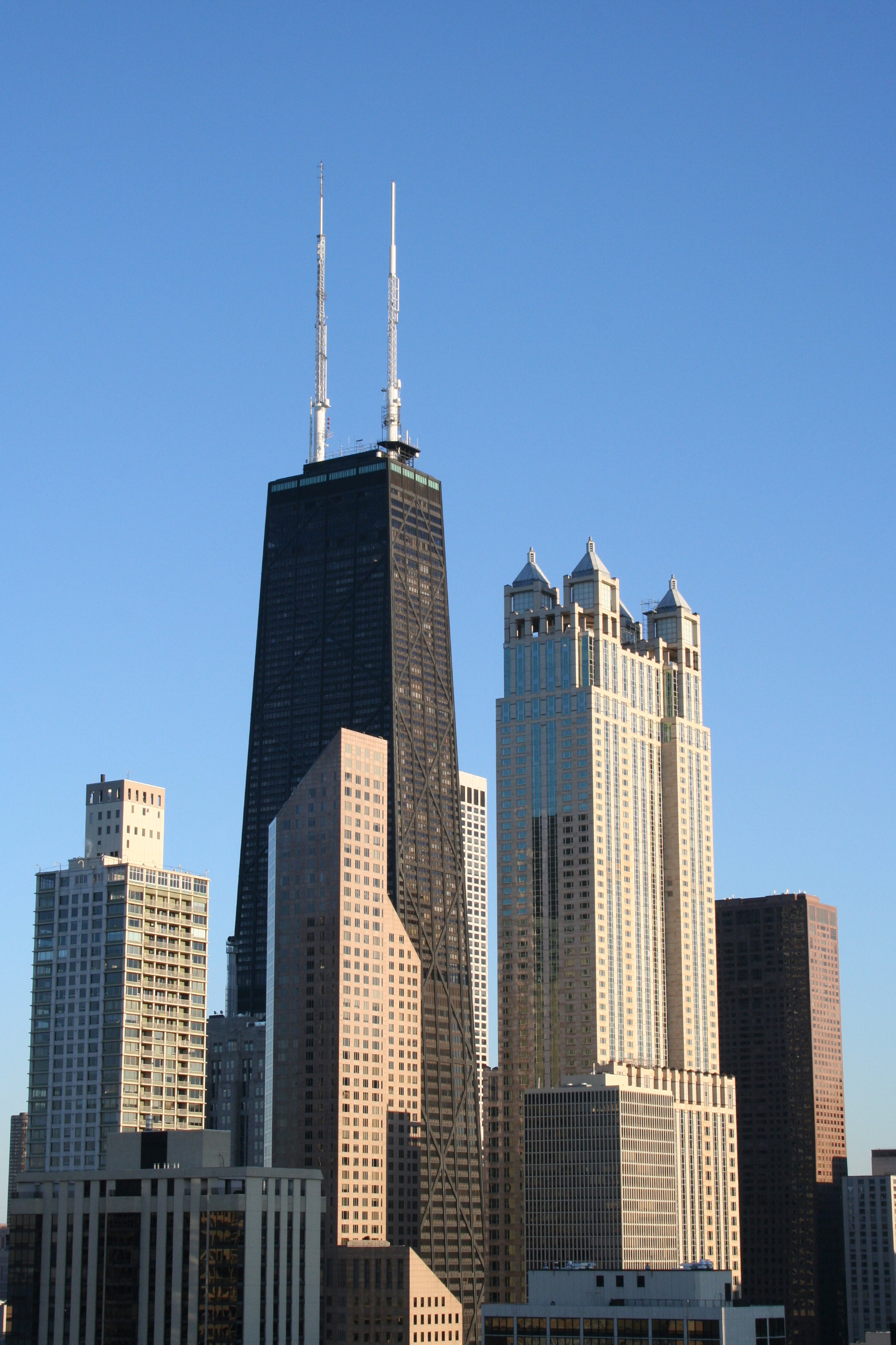 View of the skyscrapers towering over the north end of Michigan Avenue in Chicago, IL. The tallest structure is the John Hancock Center which is the fourth tallest building in Chicago and sixth tallest in the United States. Completed in 1969, this building features both the highest residences in the world as well as the highest indoor swimming pool.